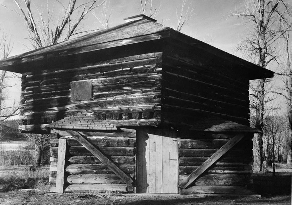 Southern side of the blockhouse at Fort Logan, located northwest of White Sulphur Springs in Meagher County, Montana. Built in 1869, the wooden fortifications are listed on the National Register of Historic Places — as "Fort Logan and Blockhouse". 1965 photograph from the HABS—Historic American Buildings Survey images of Montana.